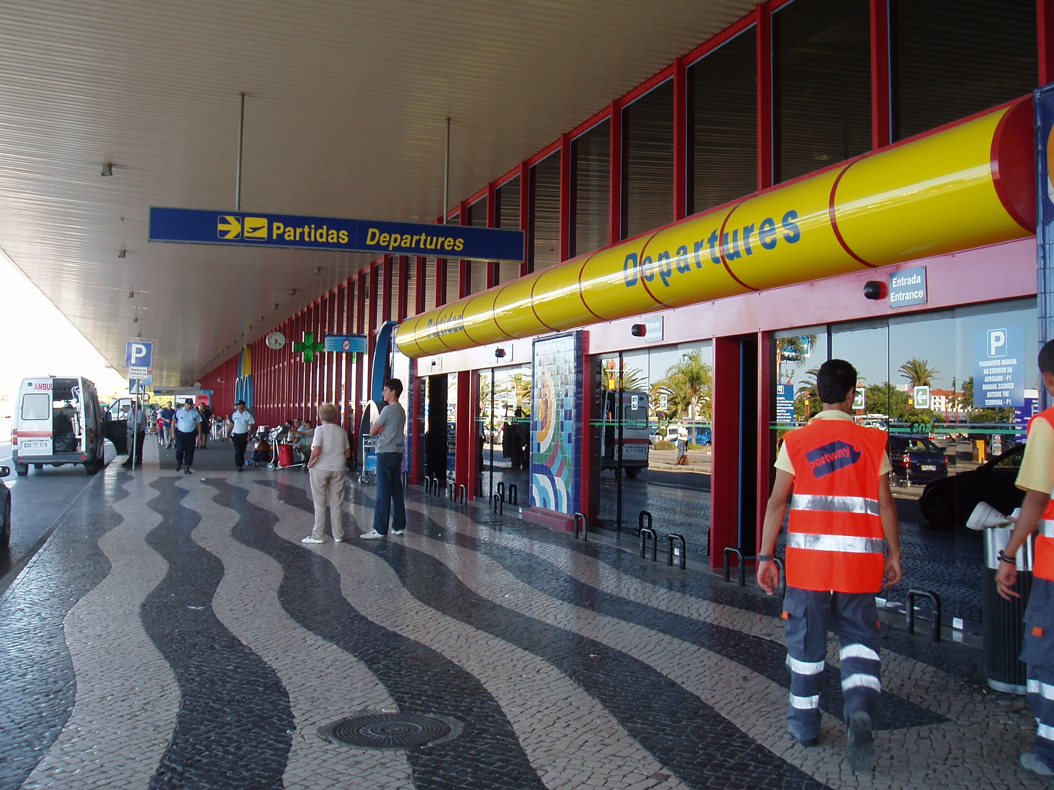 Picture of departures terminal at Faro Airport Terminal.